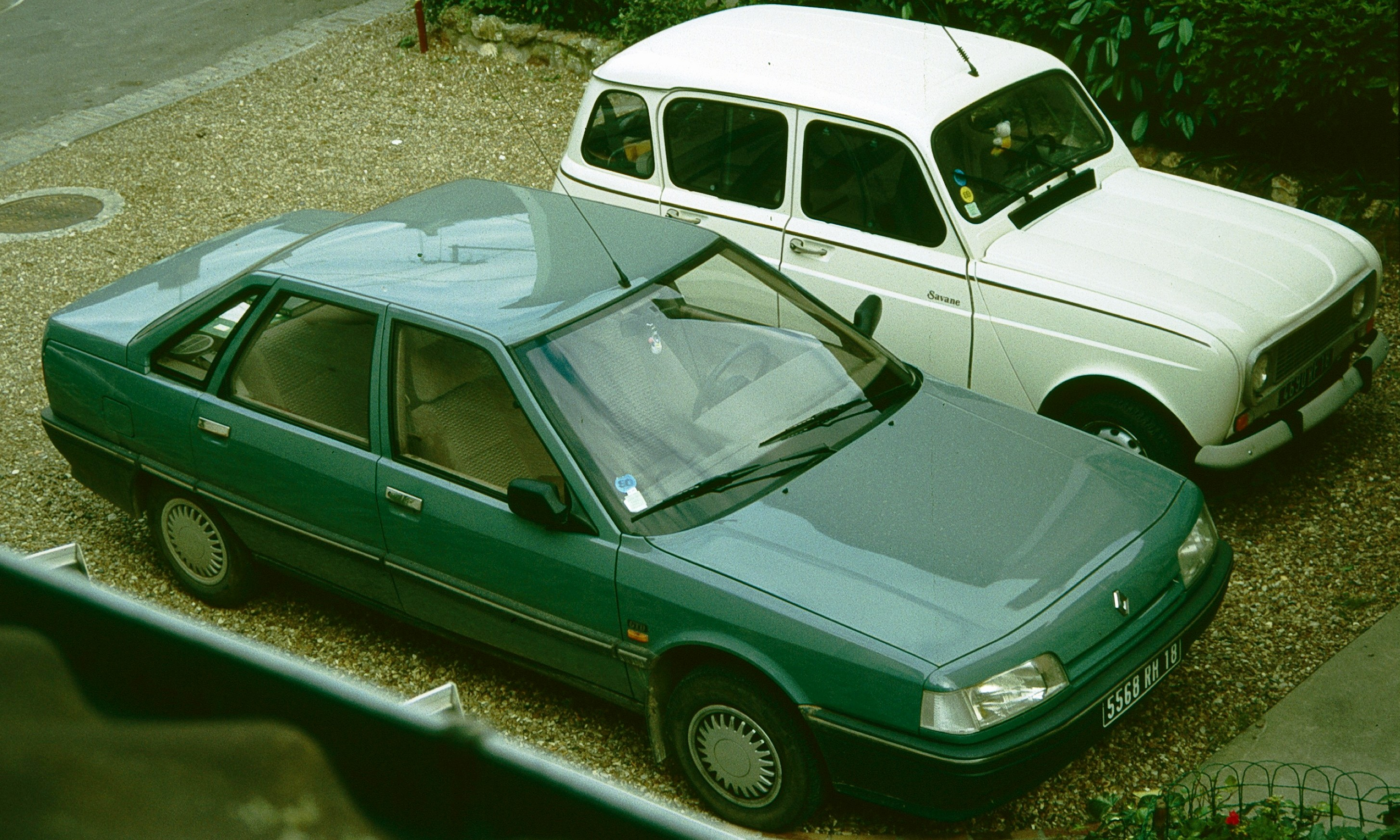 Renault 21 (early one when new) next to a Renault 4